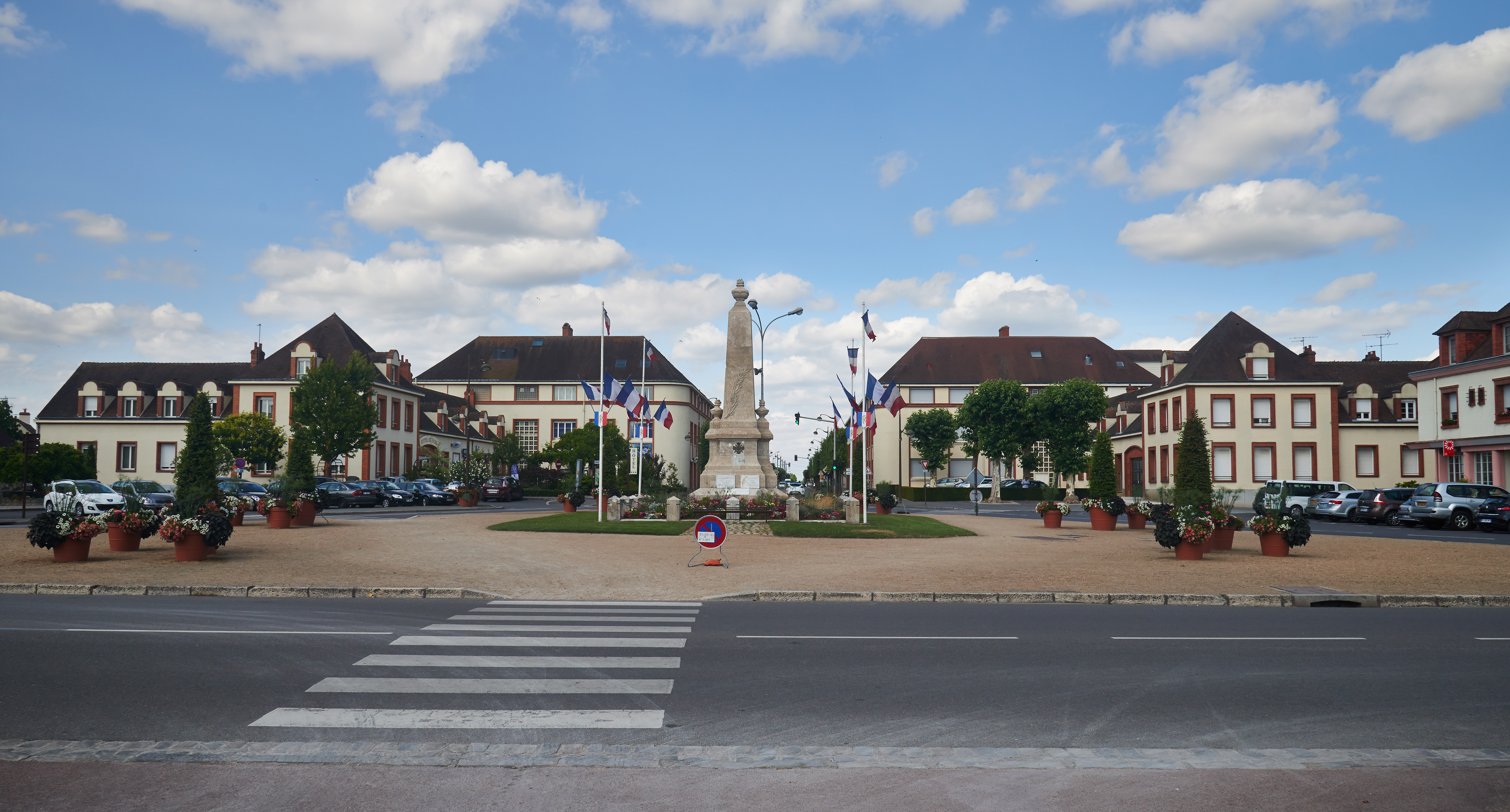 Place Aristide Brian, Châteauneuf-sur-Loire